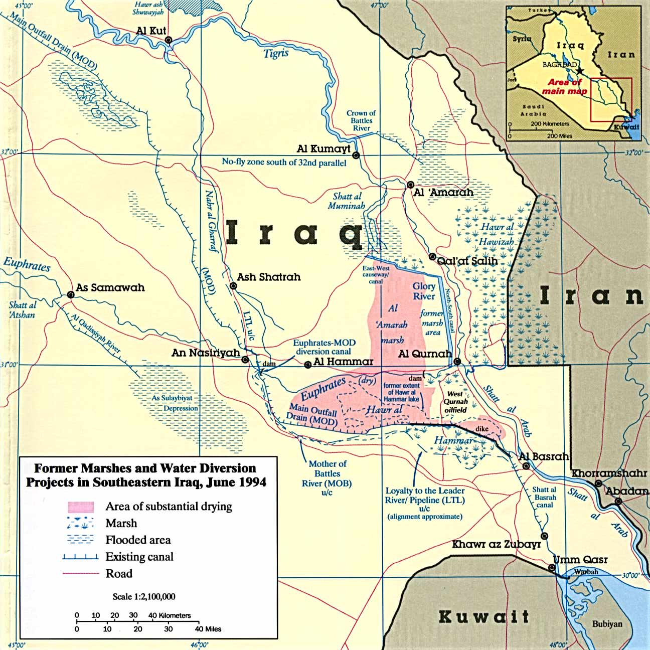 Iraq - Marshes - Former Marshes and Water Diversion Projects in Southeastern Iraq